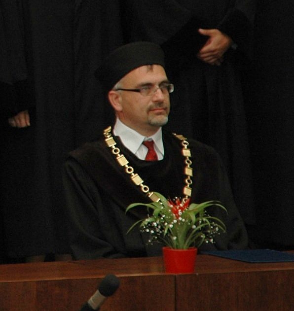 Petr Mrkývka, vice-dean of the Faculty of Law, Masaryk University, Brno, Czech Republic